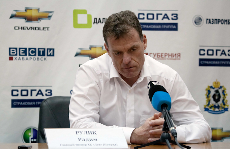 Lev Poprad head coach Radim Rulik after the KHL-game against Amur Khabarovsk on January 10, 2012 (Lev lost 1-4).